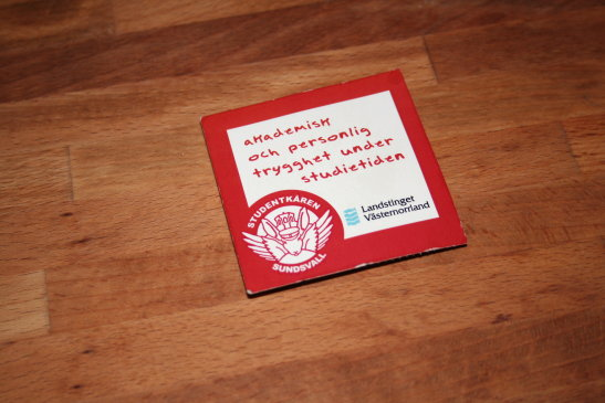 condoms